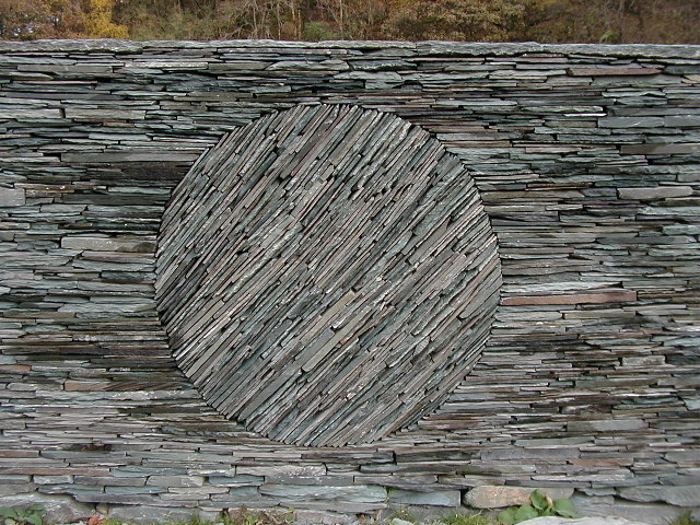 Not an ordinary sheepfold! Sheepfold, High Tilberthwaite, nr Coniston, Cumbria